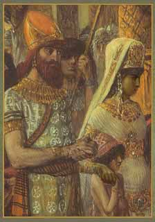 salomon and queen of sheba